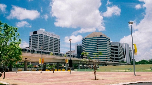 San Juan Metro in banking zone